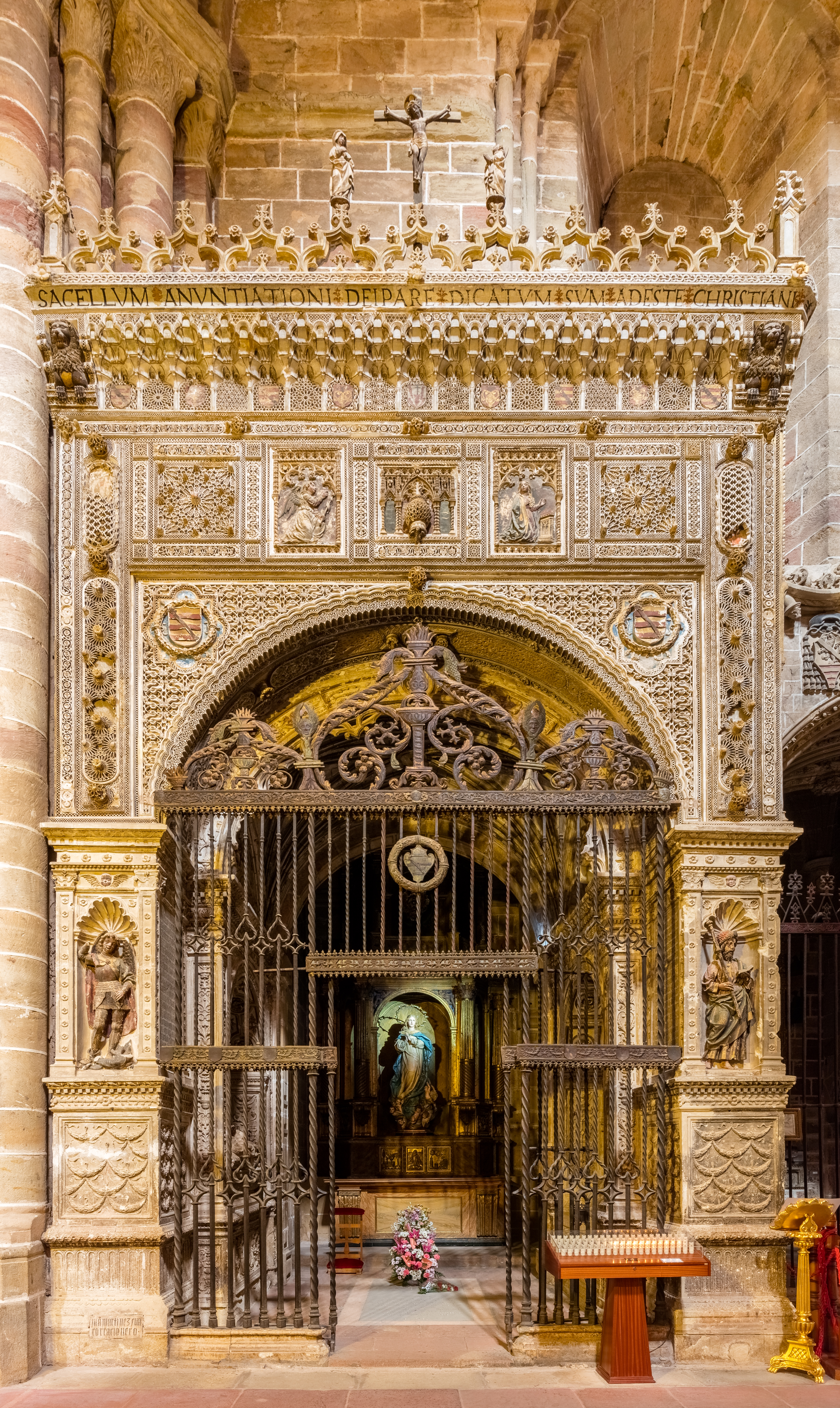 Gate of the Annunciation's chapel, Cathedral of Santa María, Sigüenza, Castile-La Mancha, Spain. The chapel was founded in 1515 by the judicial vicar Fernando Montemayor. The rich portal is decorated in Cisneros-style and has images of St Michael and St Jacobus in the lower part, mudejar elements in the arch and a scene of the Annunciation in the frieze. The cornice is of arabic-style and over it there are gothic-style arches with a calvary scene in the middle. The iron grille, of gothic style with renaissance ornaments, is a work of Juan Francés.